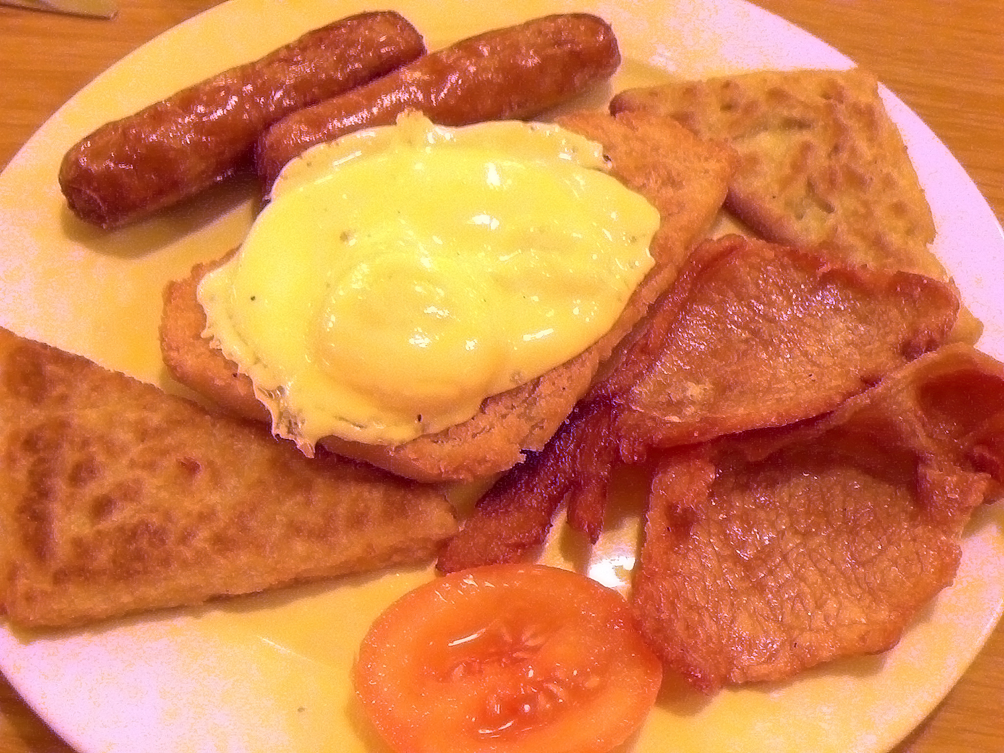 Um Ulster fry, nos arredores de Belfast. Ulster fry, in the outskirts of Belfast.